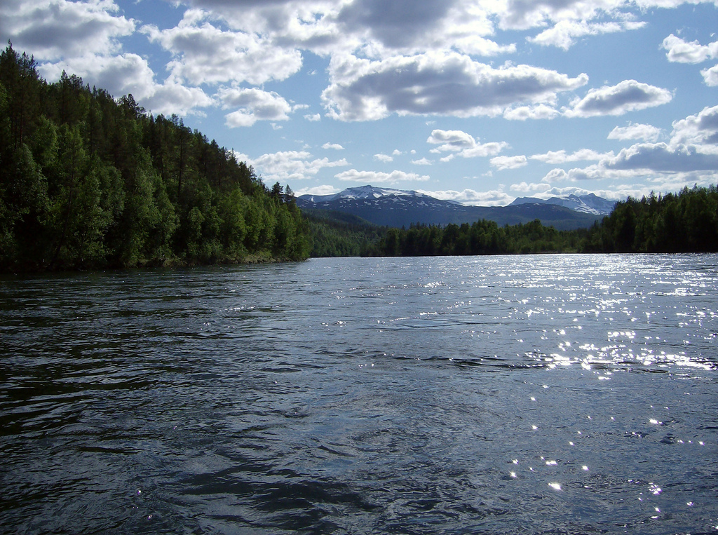 Rafting down the Målselv River